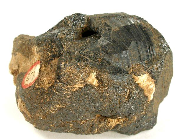 Schorlomite, Thomsonite-Ca Locality: Magnet Cove, Hot Spring County, Arkansas, USA (Locality at ) Size: 6.2 x 4.4 x 4.0 cm. Schorlomite is a rare garnet species and thomsonite is a relatively uncommon zeolite group mineral. The famous Magnet Cove deposit is the Type Locality for schorlomite. This old-time specimen is essentially solid intergrown, blackish-brown schorlomite crystals. The crystals are euhedral to subhedral and the large crystal on top is 4.5 cm. Some crystal faces are very sharp, highly lustrous and are very well-striated. Little pods of cream-colored, lustrous and translucent lathes of thomsonite are scattered about. This is old-time material, probably around 100 years old, as there is a cloth label glued to the bottom of the piece. Ex. Mullane Collection.